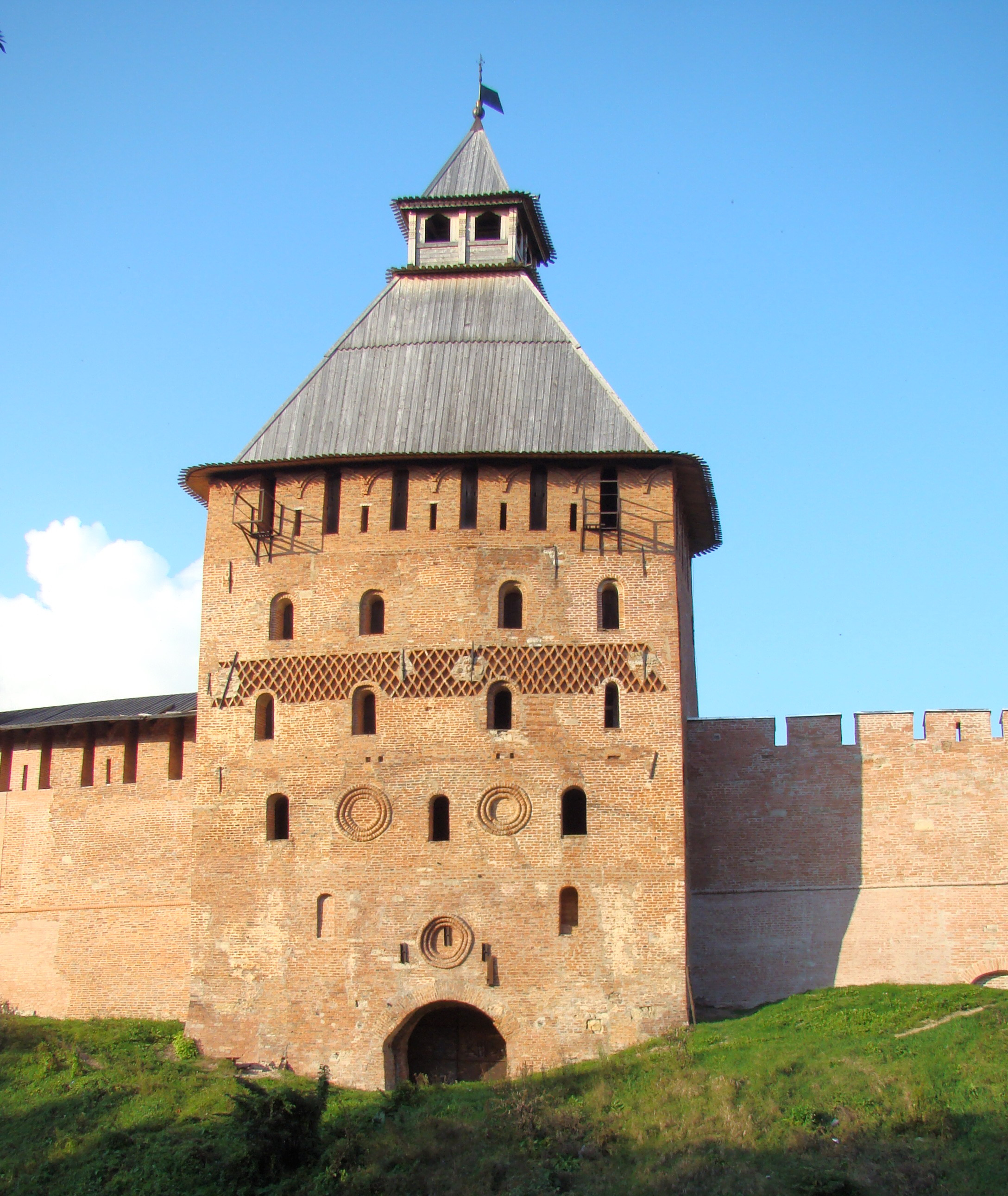 Spasskaya tower in Detinets (Velikiy Novgorod, Russia, 15th-century)